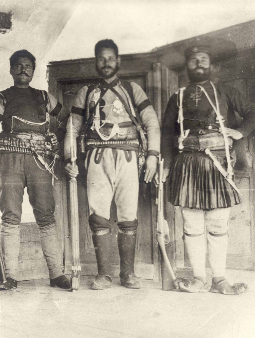 Gonos Iotas, Lazo Doiama, Apostolis Matopoulos.